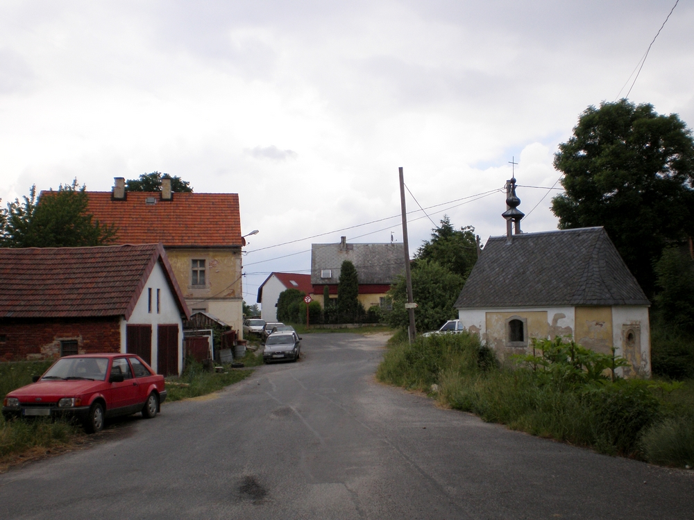 Starý Rybník (Skalná), Cheb Region, Czech Republic. Česky: Starý Rybník u Skalné, okres Cheb, Česká republika.